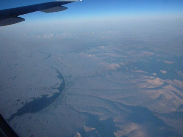 An aerial photo of a the coastal area of Seward Peninsula coast between Nome and Port Clarence. Looking north-west. Photo taken from an AA aircraft on a non-stop ORD-PVG flight